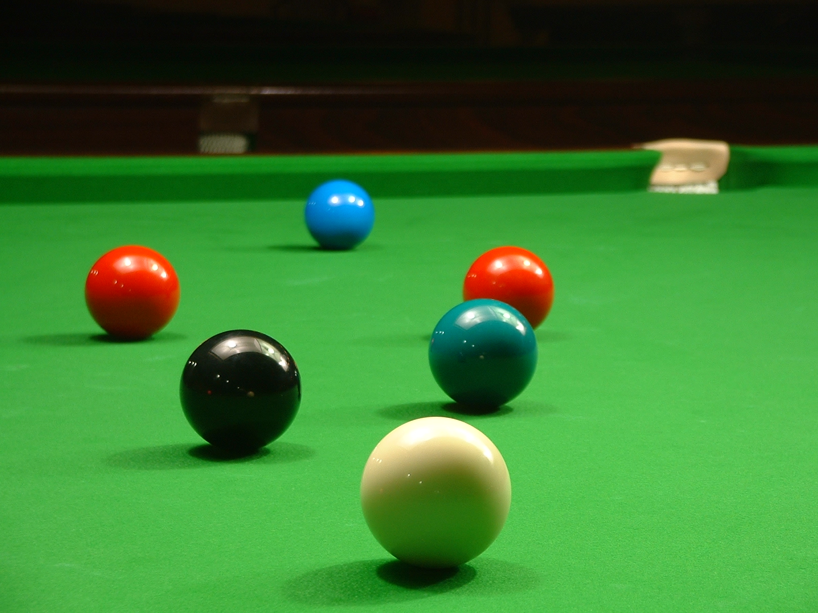 A situation in Snooker: White is snookered on two reds by black and green.